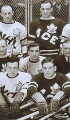 Hooley Smith at the Ace Bailey benefit game , Toronto, 1934